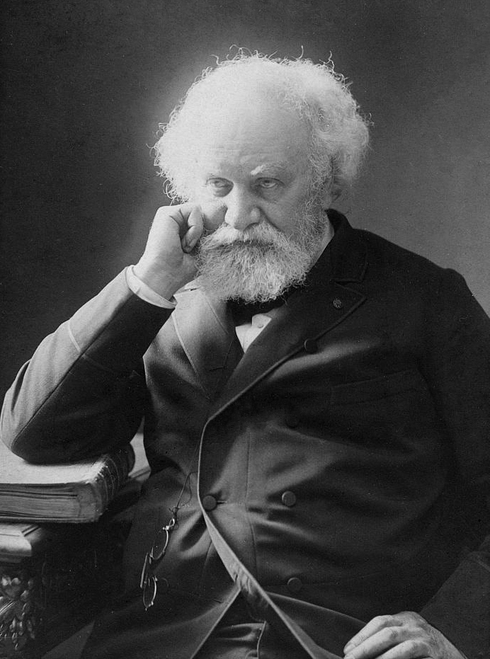 Pierre Jules César Janssen (22 February 1824 – 23 December 1907)